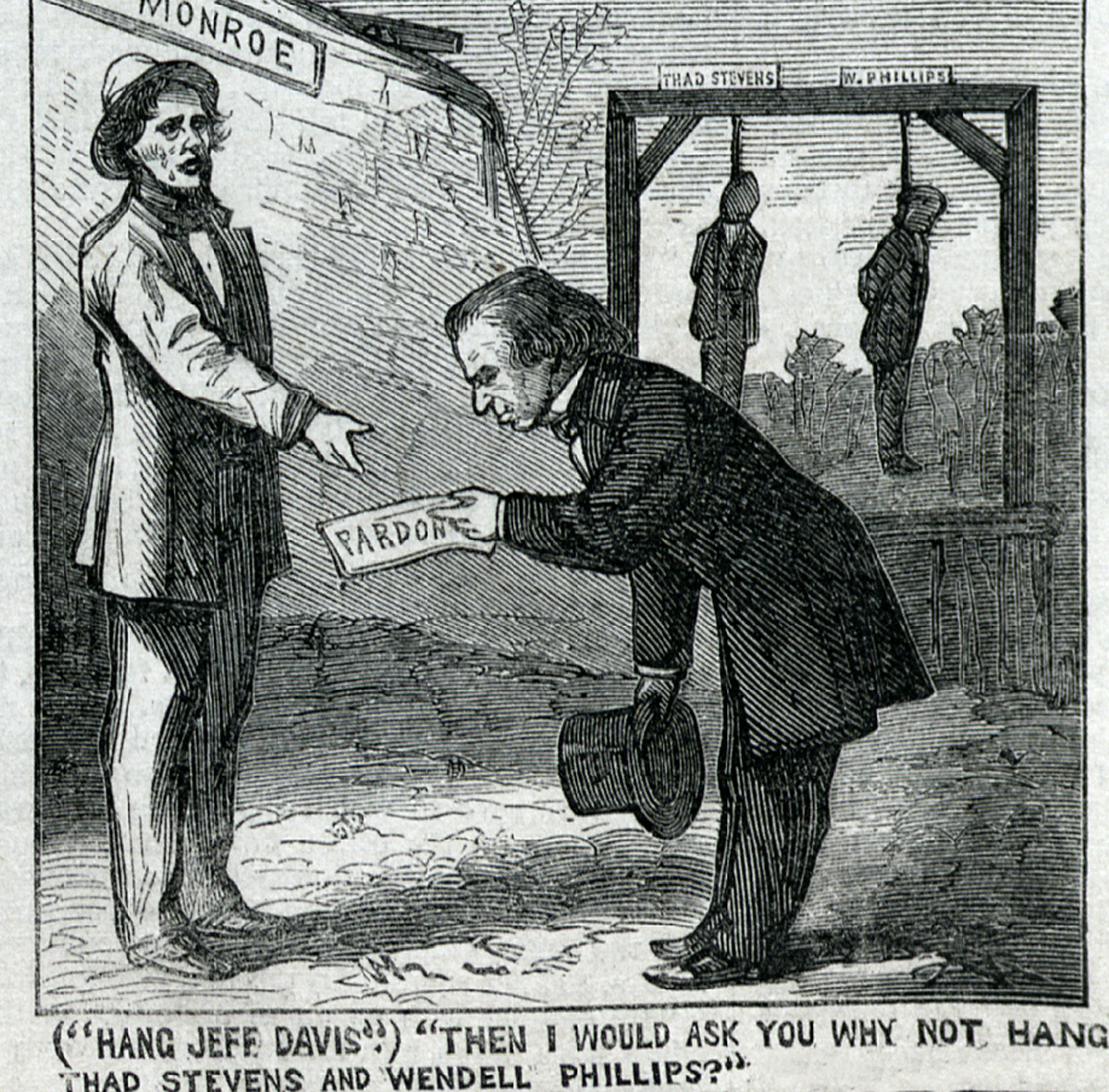 Political cartoon. President Andrew Johnson cringingly delivers a pardon to Jefferson Davis (then imprisoned at Fortress Monroe) while Thaddeus Stevens and Wendell Phillips hang in the background. The dialogue is from ill-advised exchanges between Johnson and hecklers during his 1866 campaign trip, the "Swing Around the Circle".